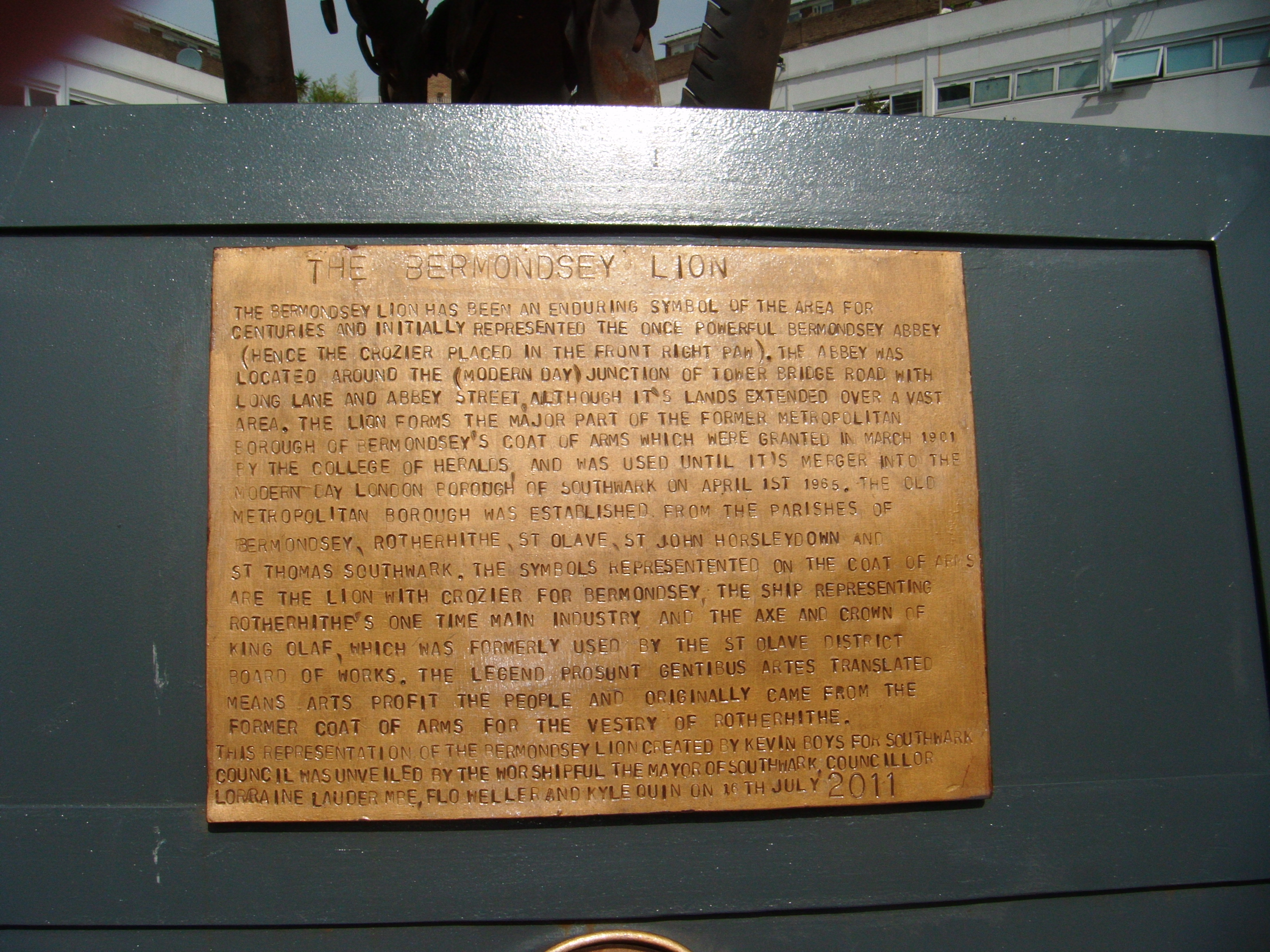 Plaque on the plinth of the Lion of Bermondsey in The Blue, Bermondsey The Bermondsey Lion The Bermondsey Lion has been an enduring symbol of the area for centuries and initially represented the once powerful Bermondsey Abbey (hence the crozier placed in the front right paw). The Abbey was located around the (modern day) junction of Tower Bridge Road with Long Lane and Abbey Street, although it's lands extended over a vast area. The lion forms the major part of the former Metropolitan Borough of Bermondsey's coat of arms which were granted in March 1901 by the College of Heralds and was used until it's merger into the modern day London borough of Southwark on April 1st 1965. the old metropolitan borough was established form the parishes of Bermondsey, Rotherhithe, St Olave, St John Horsleydown and St Thomas Southwark. The symbols represented on the coat of arms are the lion with crozier for Bermondsey, the ship representing Rotherhithe's one time main industry and the axe and crown of King Olaf which was formerly used by the St Olave District Board of works. The legend Prosunt Gentibus Artes translated means Arts Profit the People and originally came from the former coat of arms for the vestry of Rotherhithe. This representation of the Bermondsey Lion created by Kevin Boys for Southwark Council was unveiled by the Worshipful the Mayor of Southwark, councillor Lorraine Lauder MBE, Flo Weller and Kyle Quin on 16th July 2011